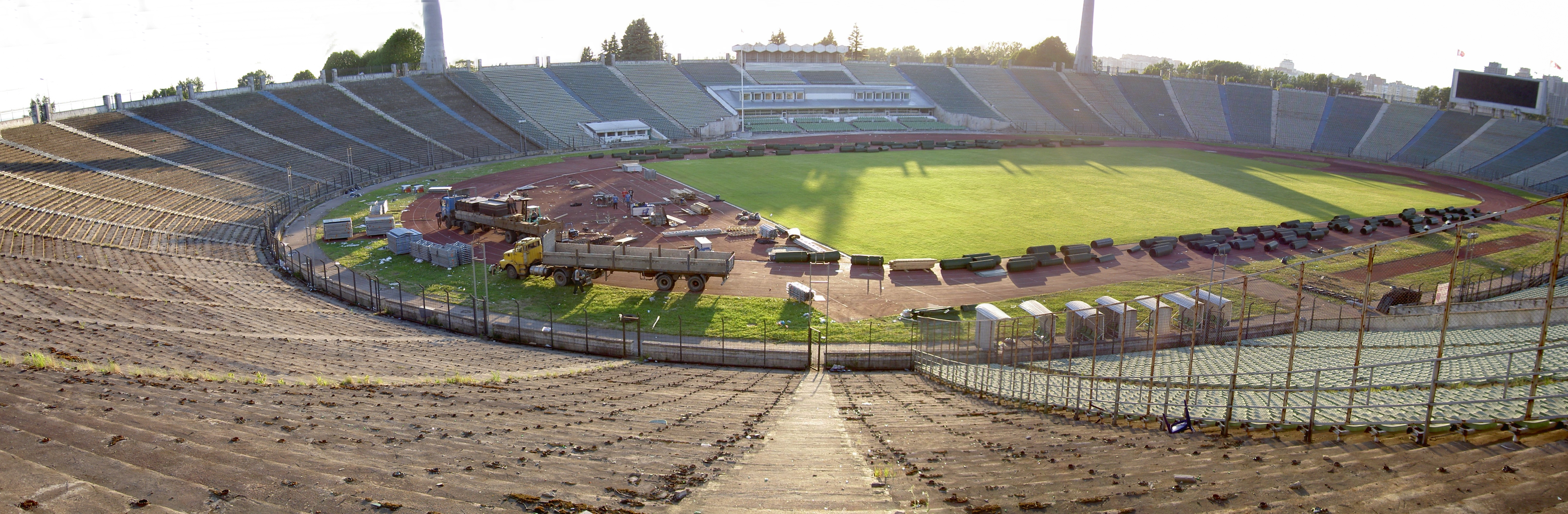 Kirov stadium in Saint Petersburg